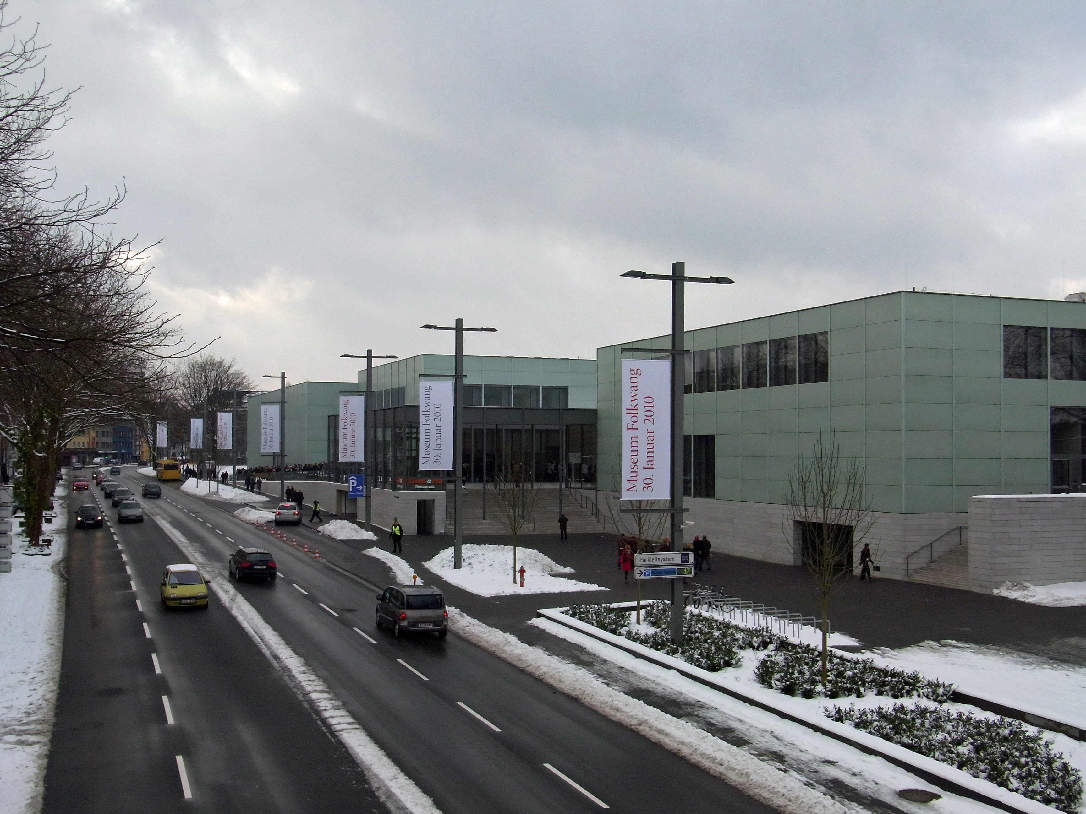 Museum Folkwang